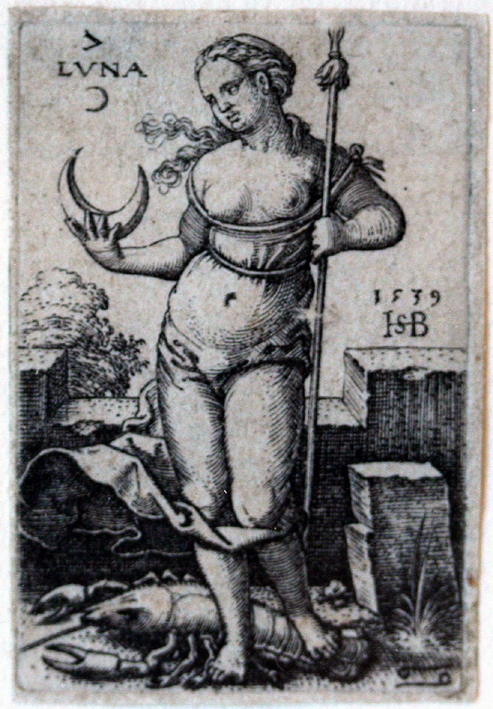 Beham, (Hans) Sebald (1500-1550): Luna, from The seven Planets with the Signs of the Zodiac, 1539 (Bartsch 120; Pauli, Holl. 122), first state of five, trimmed just outside the platemark, generally in very good condition.